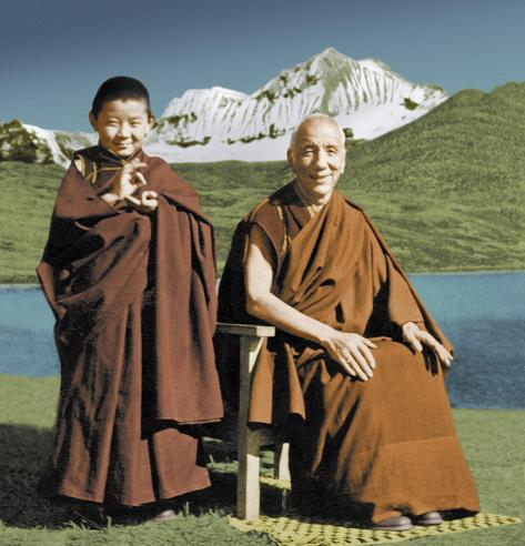 Sogyal Rinpoche with Jamyang Khyentse Chökyi Lodrö